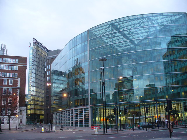 Holborn Circus Modern offices on busy traffic hub where several main roads in the City of London converge.